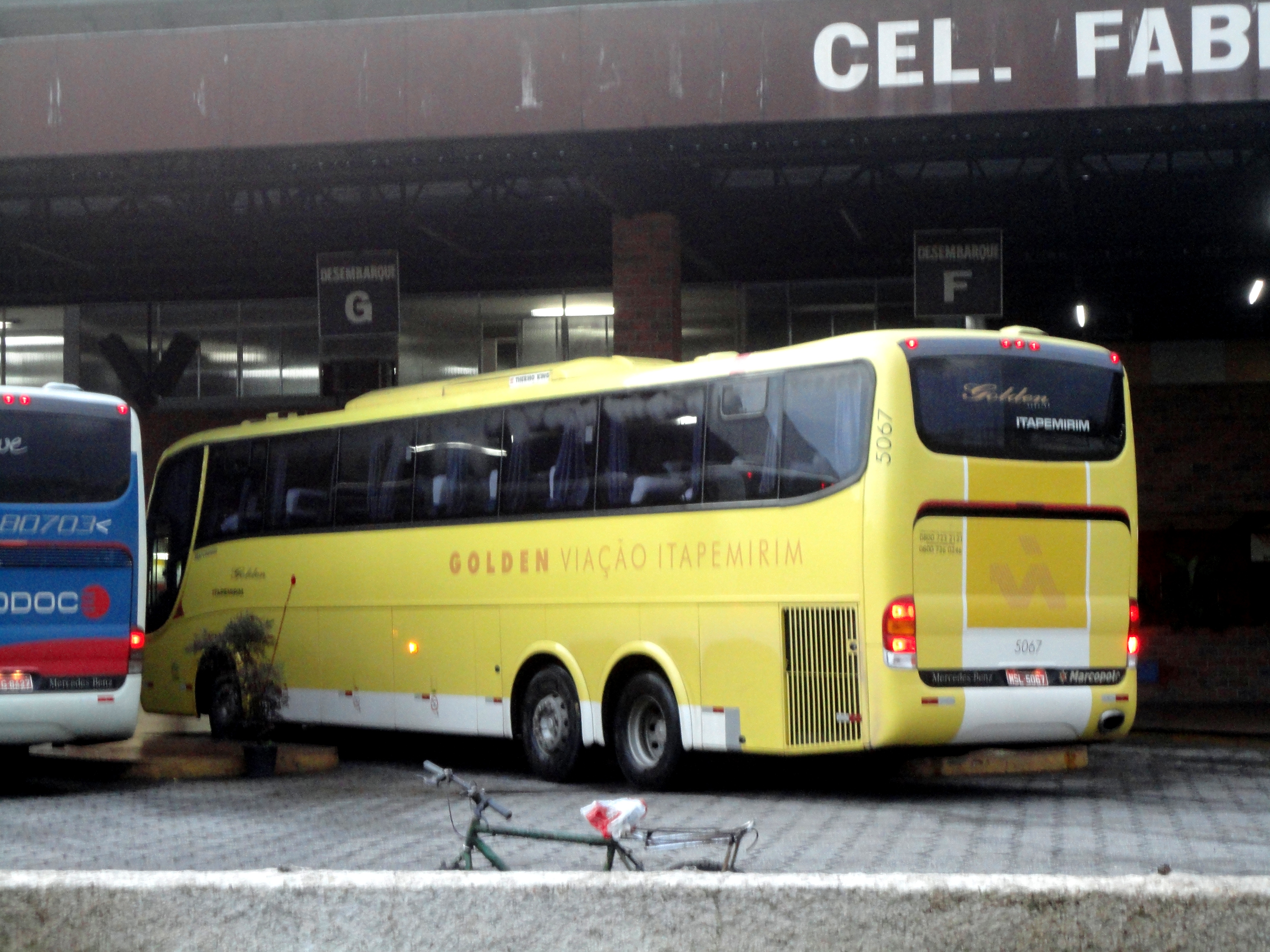 Marcopolo 6x2 coach (#5067) with Mercedes-Benz chassis of Itapemirim Company in the Coronel Fabriciano bus station, in Coronel Fabriciano, Minas Gerais, Brazil.